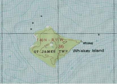 Topographical map of Whiskey Island in the Beaver Island group in Lake Michigan